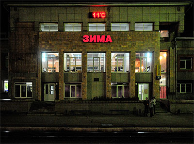 Zima railway station, Siberia, Russia